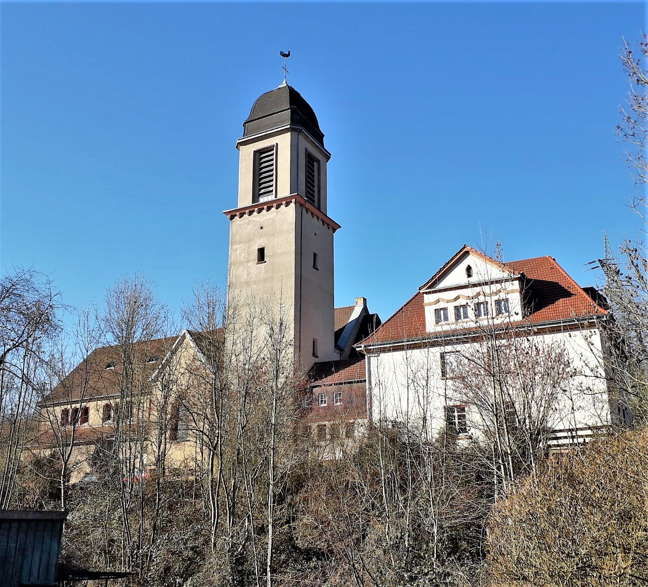 roman catholic St.-Mary's church in Saarbrücken, Saarland, Germany